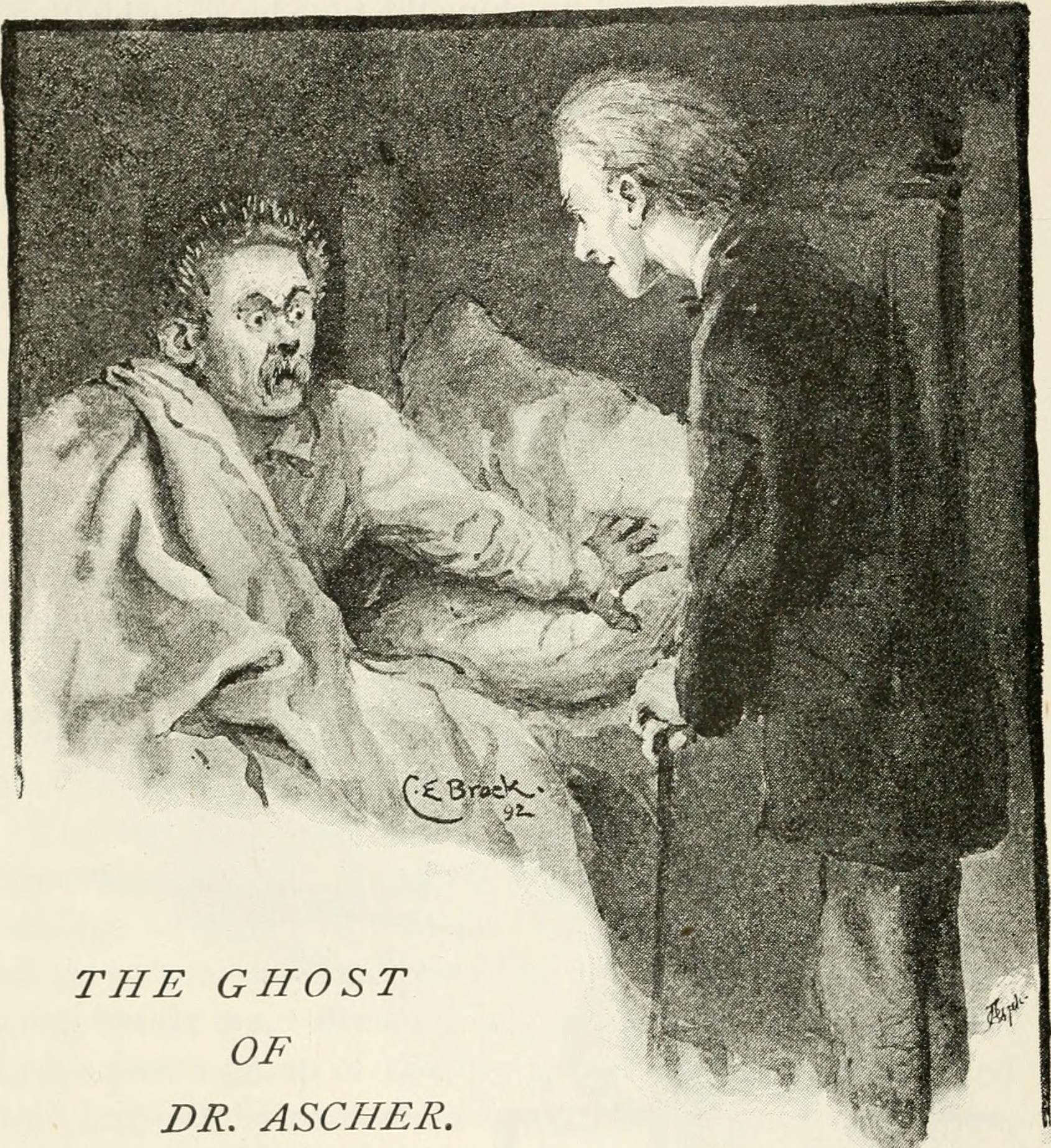 Title: The humour of Germany; Year: 1909 (1900s) Authors: Müller-Casenov, Hans Brock, C. E. (Charles Edmund), 1870-1938 Subjects: German wit and humor Publisher: London, The Walter Scott publishing co., ltd New York, C. Scribner's sons Text Appearing Before Image: OFF I WENT IN A FULL CANTER. Stay with me, until it was once more my lawful property. I hold you by your shadow, he added; and you will not escape me. A rich man like you cannot get on without a shadow. You are to be blamed in so far as you did not find that out before. von Chamisso (i 781-1838). 66 GERMAN HUMOUR. Text Appearing After Image: THE GHOST OF DR. ASCHER. THE night I spent at Goslar something very remarkable occurred. Terror seizes me even now as I think back. I am not timid by nature, but I have a mortal terror of ghosts. What is fear? Is it a product of the understanding or of the soul? About this question I had many a discussion with Dr. Saul Ascher in Berlin when we met in the Cafe Royal, where I used to dine. He would have THE GHOST OF DR. ASCHER. Be it that we fear a thing because our reason recognises there in due cause for terror. While I was eating and drinking to my satisfaction he was fond of constantly demonstrating the fine qualities of Reason. Toward the end of his demonstration he would look at his watch, and he always ended with: Reason is the highest principle! Reason! When I so much as hear the word I see before me Dr. Ascher with his abstract legs, his tight waistcoat of transcendental grey, and his harsh bitter cold face, which might have served as a title vignette to a book on geometry. The man was a